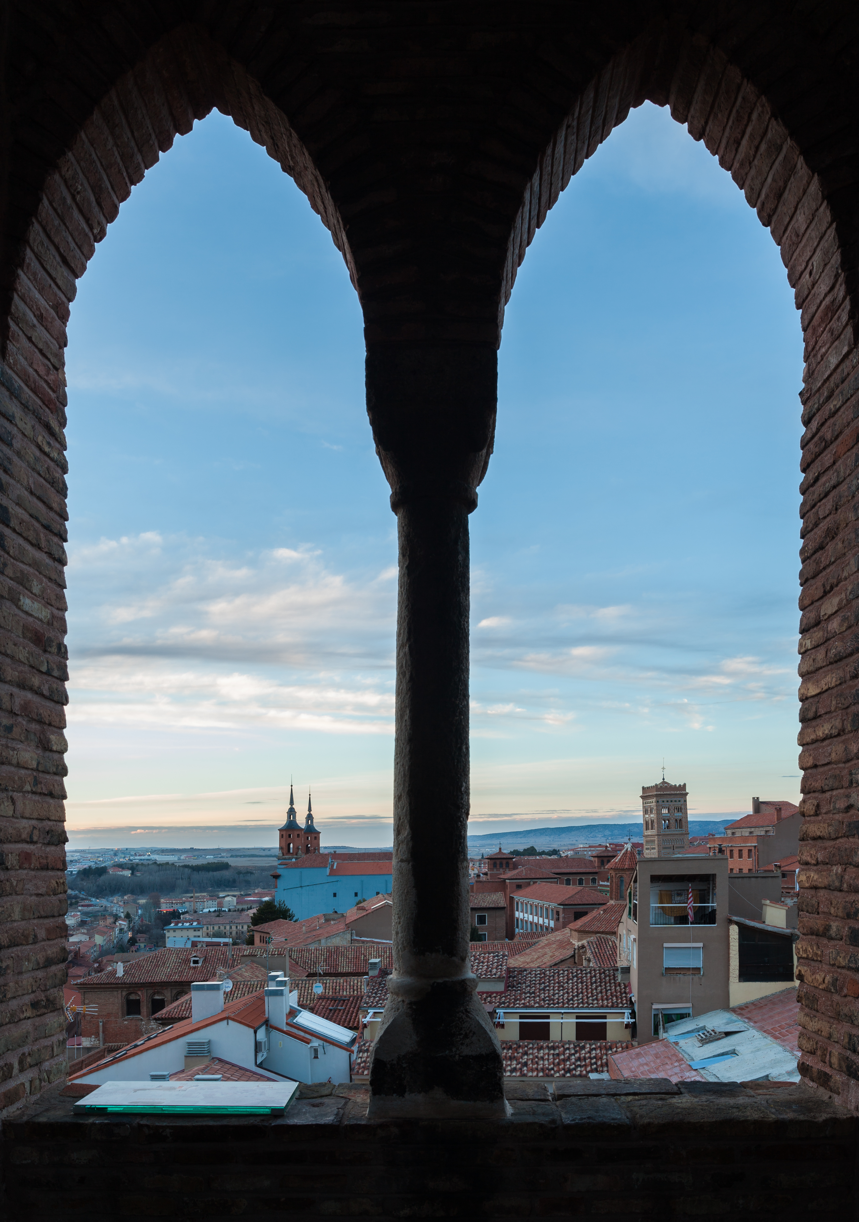 View of Teruel at dusk from the tower of the Church of St. Salvador, Aragón, Spain.